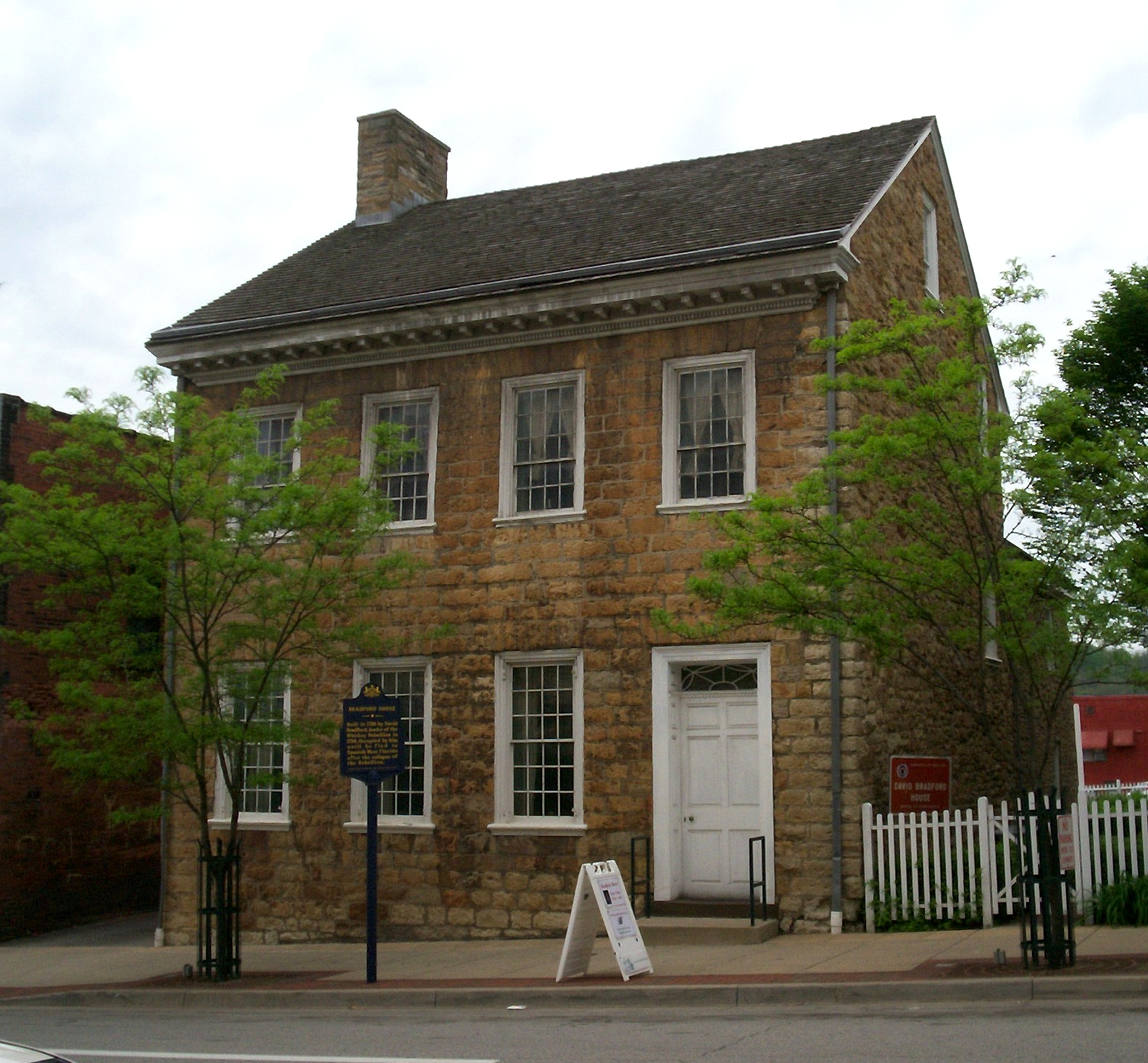 Former home of David Bradford, built ca. 1788, located in Washington, Pennsylvania. Today it is preserved as a house museum and open to the public. See also the historical marker for the house.